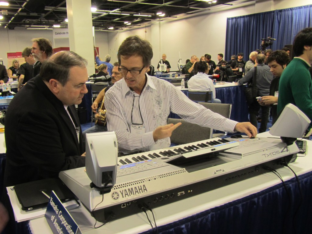 Yamaha Tyros4 Mike Huckabee checks out new gear at NAMM 2011 Governor Mike Huckabee checks out the new keyboard from Yamaha at NAMM 2011